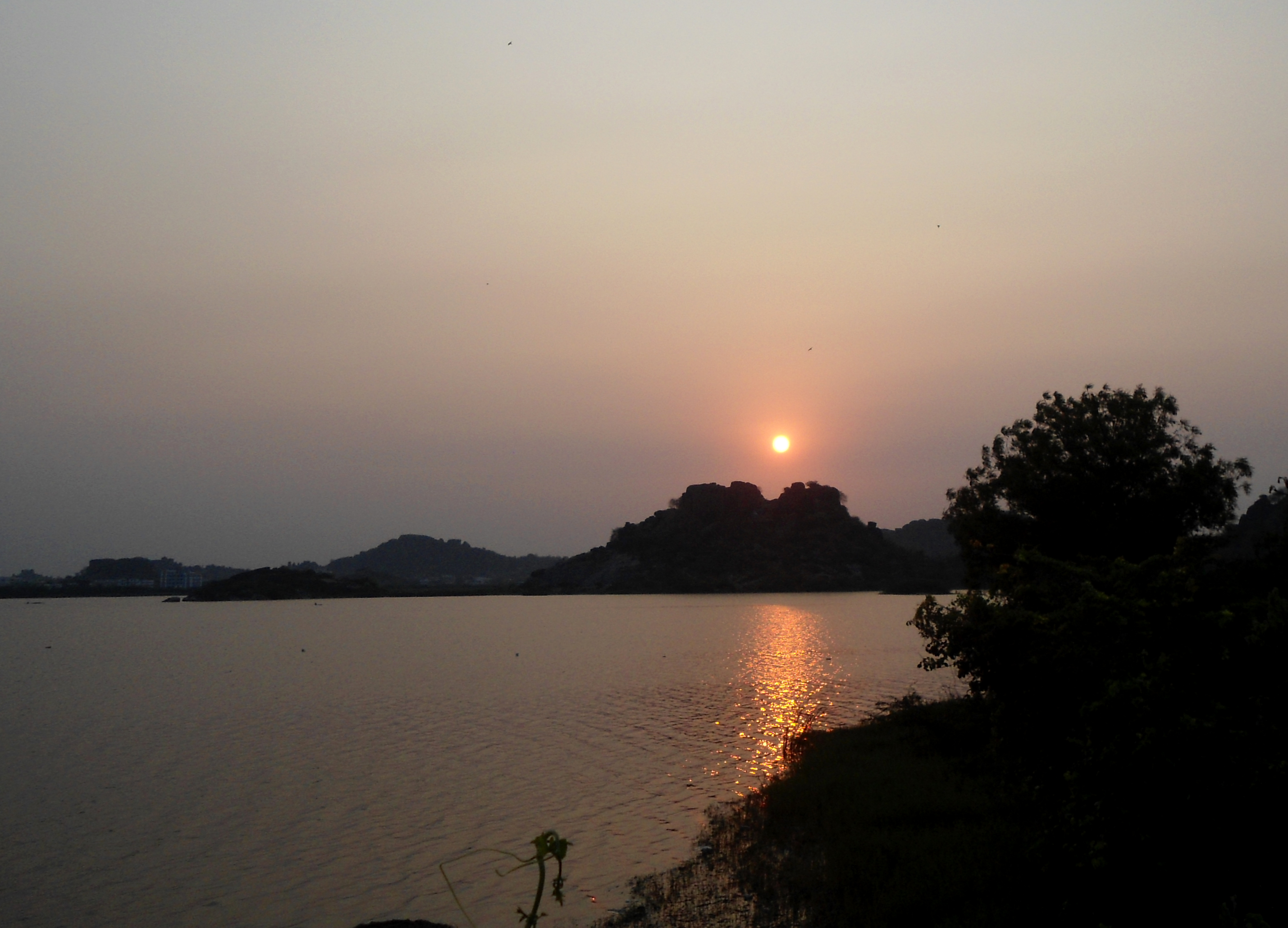 Lake at Bhadrakali Temple, Warangal, India